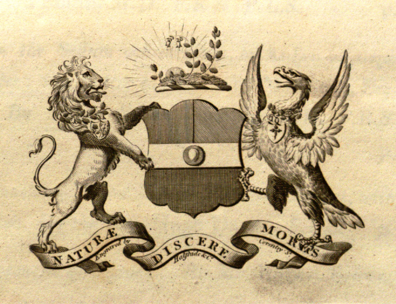 This is the coat of arms of the Linnean Society of London, as it appeared on the title page of Transactions of the Linnean Society of London 10 (1811).